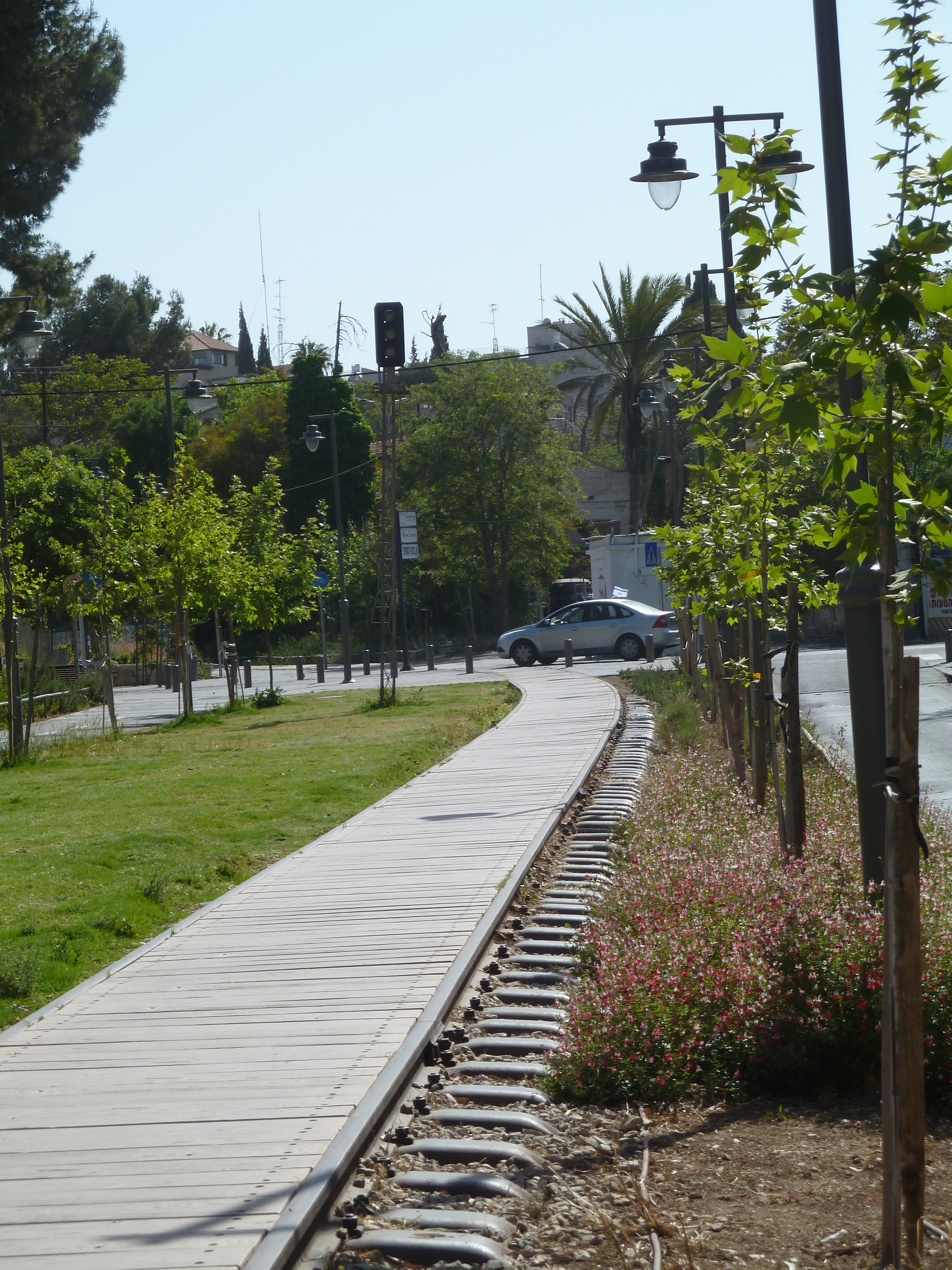 HaMessila Park, Bakaa, Jerusalem